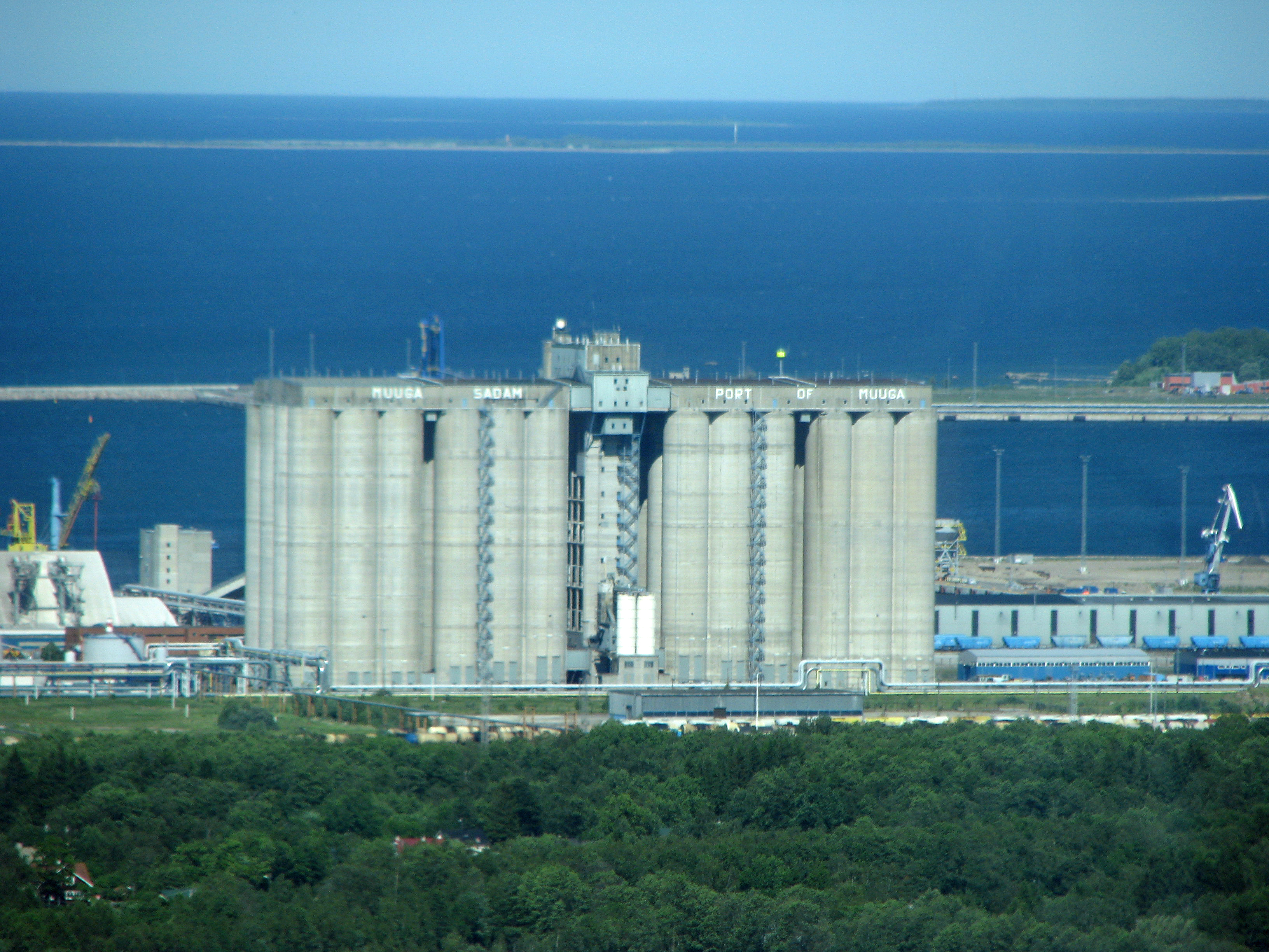 Port of Muuga, grain terminal